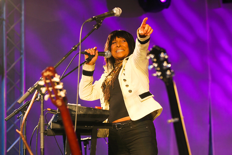 Buffy Sainte-Marie on Riddu Riddu. Photo: Marius Fiskum